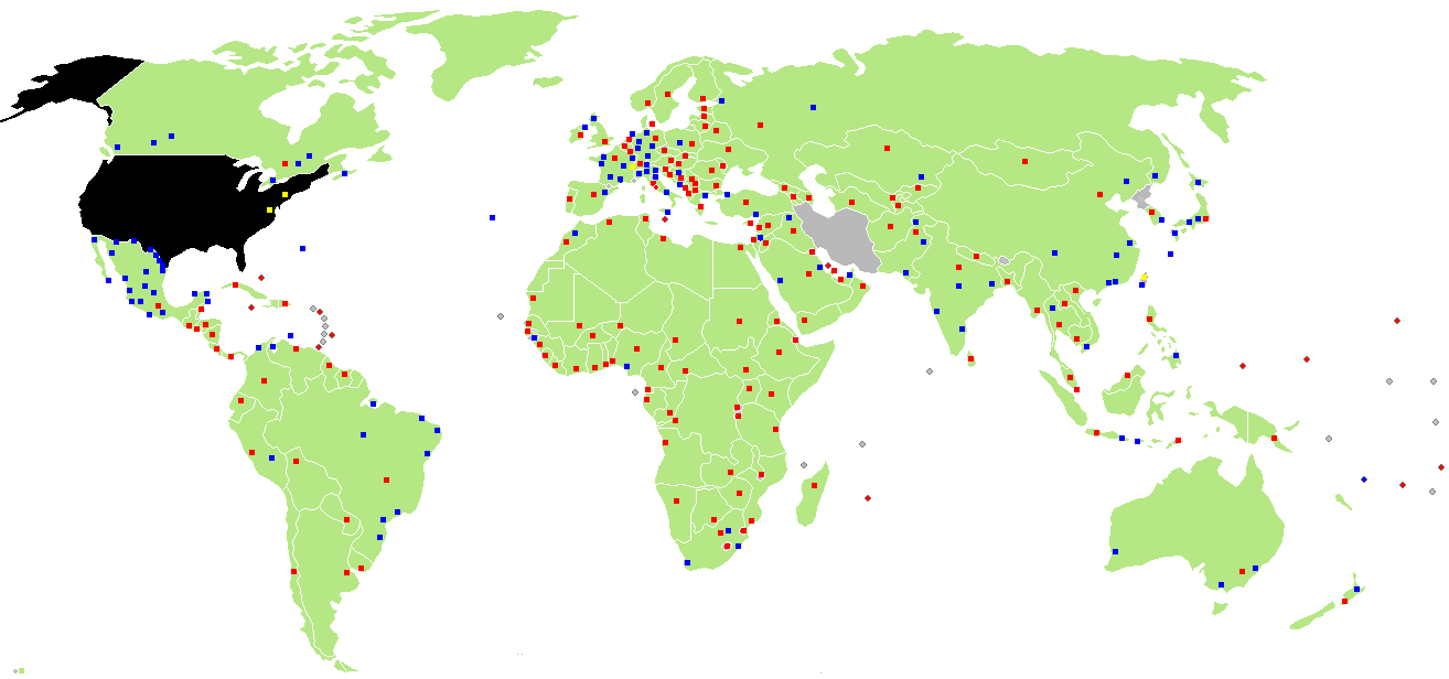 Diplomatic missions of the United States